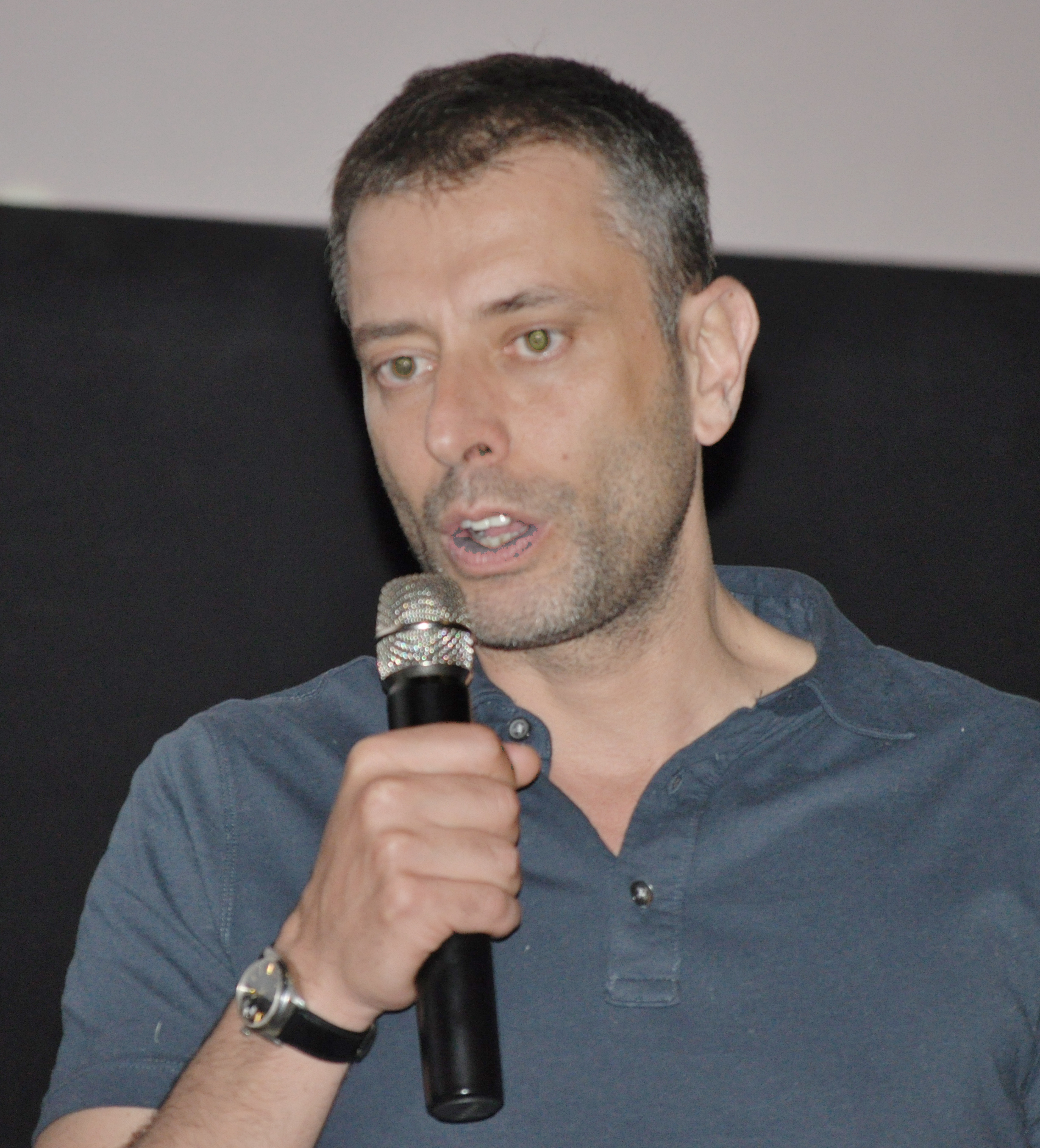 Screenwriter Ivan Cotroneo at the Pacific Place AMC (Seattle, Washington) as part of the Seattle International Film Festival's showing of his first film as a director, Kryptonite, based on his novel La kryptonite nella borsa.